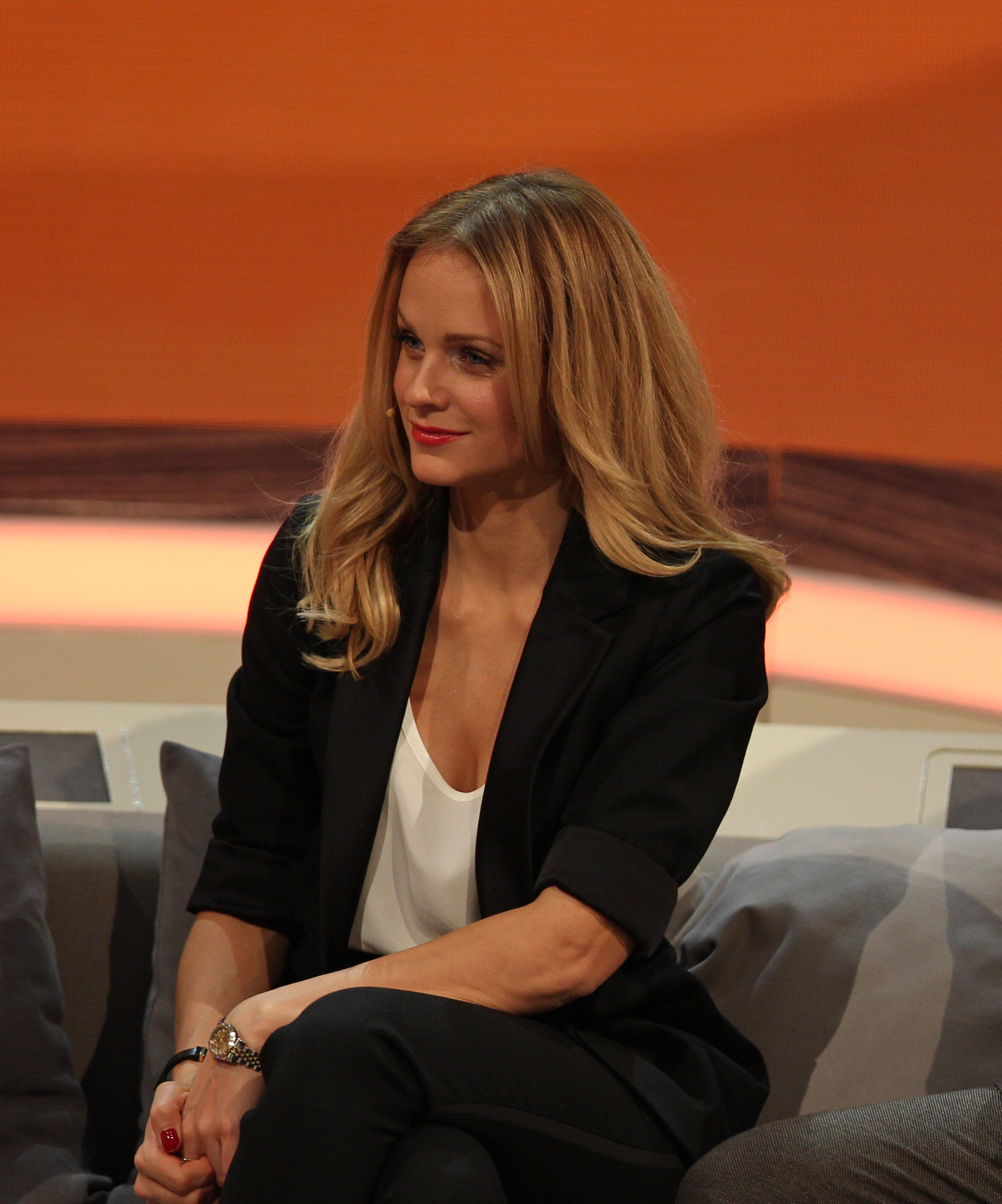 Mirjam Weichselbraun at 214. Wetten, dass..? show in Graz, Austria.